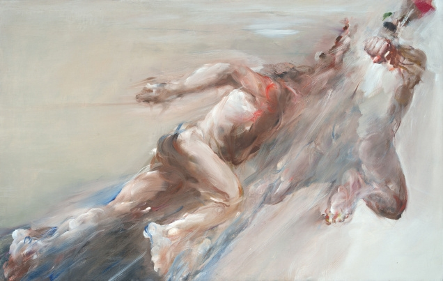 The Freedon Fighter- one of Shahabuddin's most popular works of art